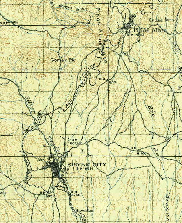 The railroad climbed 1,100 feet using 48 bridges or trestles with 15.4 miles of track at grades of 1.5 to 6 percent to cross the 6 miles from Silver City to Pinos Altos